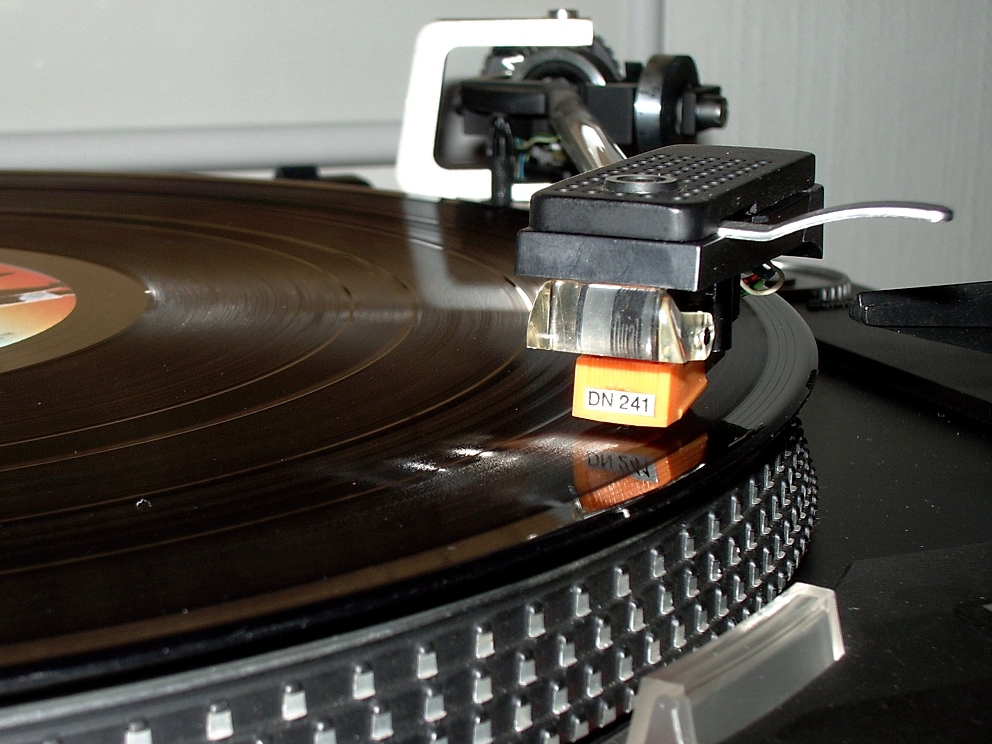 Magnetic cartridge DUAL DMS240E with DN241 needle. Mounted on a Dual CS 604 direct drive turntable.